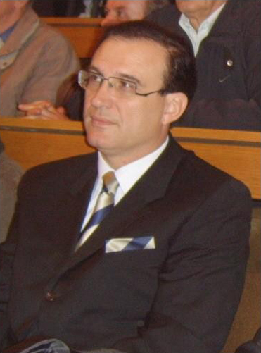 Portrait of Adamir Jerkovic, Bosnian politician.